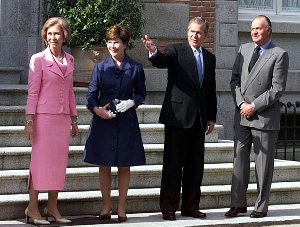 President George W. Bush and Laura Bush meet with the King Juan Carlos I and Queen Sofia of Spain at the King's palace Tuesday June 12, 2001 in Madrid, Spain.